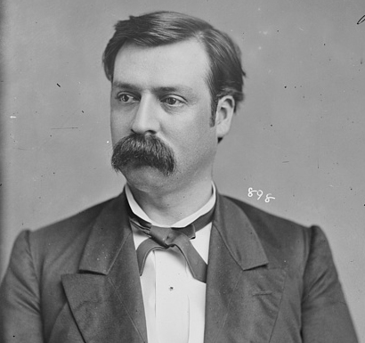 Kentucky Congressman Edward Y. Parsons